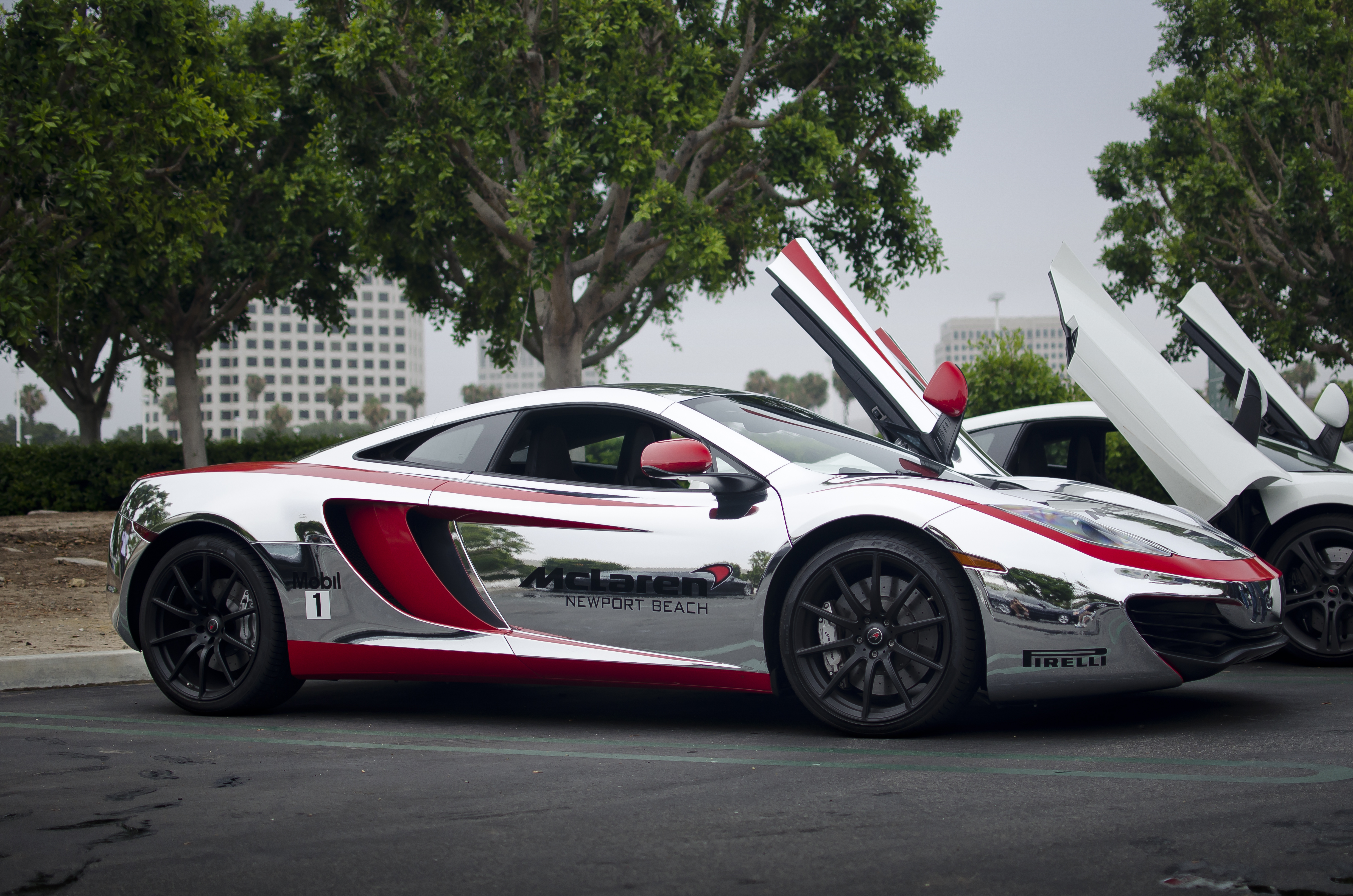 Chrome McLaren MP4-12C